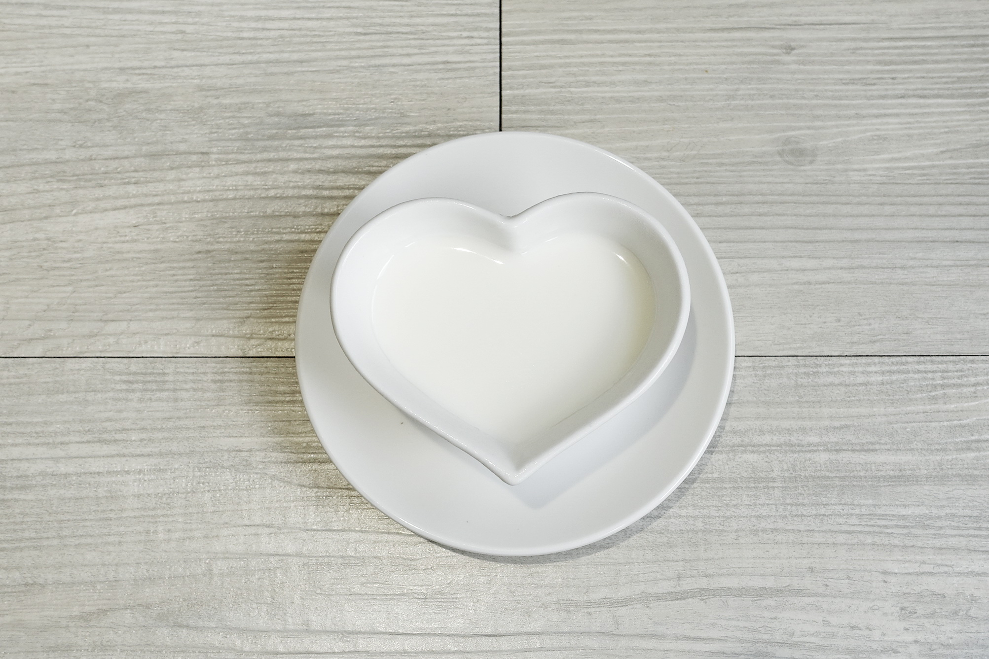 A heart-shaped bowl